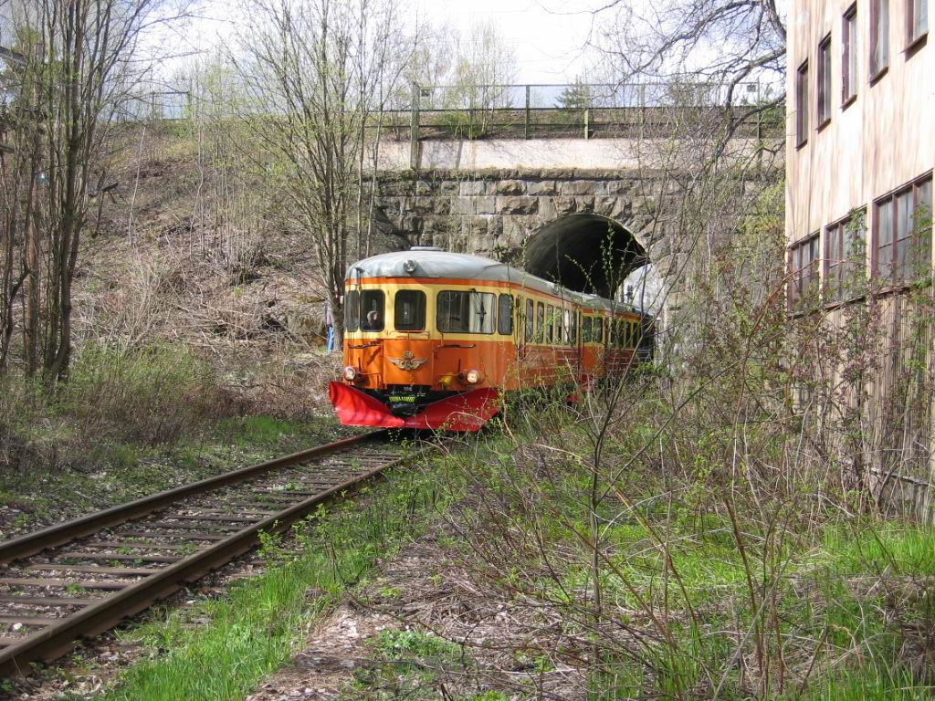 Swedish motorcars Class Y6 and Y7.